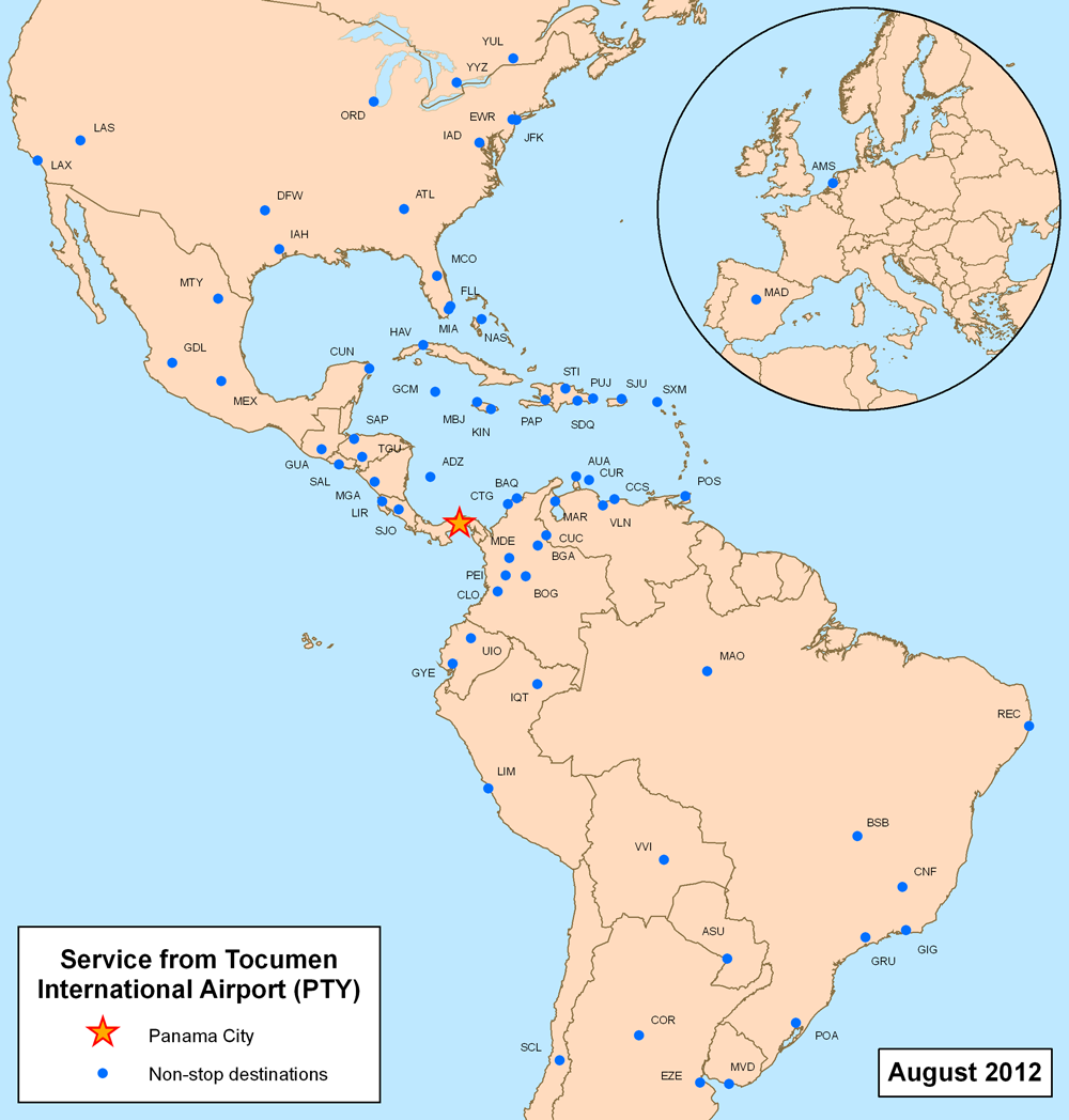 This is a route map for Tocumen International Airport as of March 2009. Map is an Azimuthal equidistant projection centered on the airport so straight lines from Panama City are along great circle routes. Data source was individual airline websites.